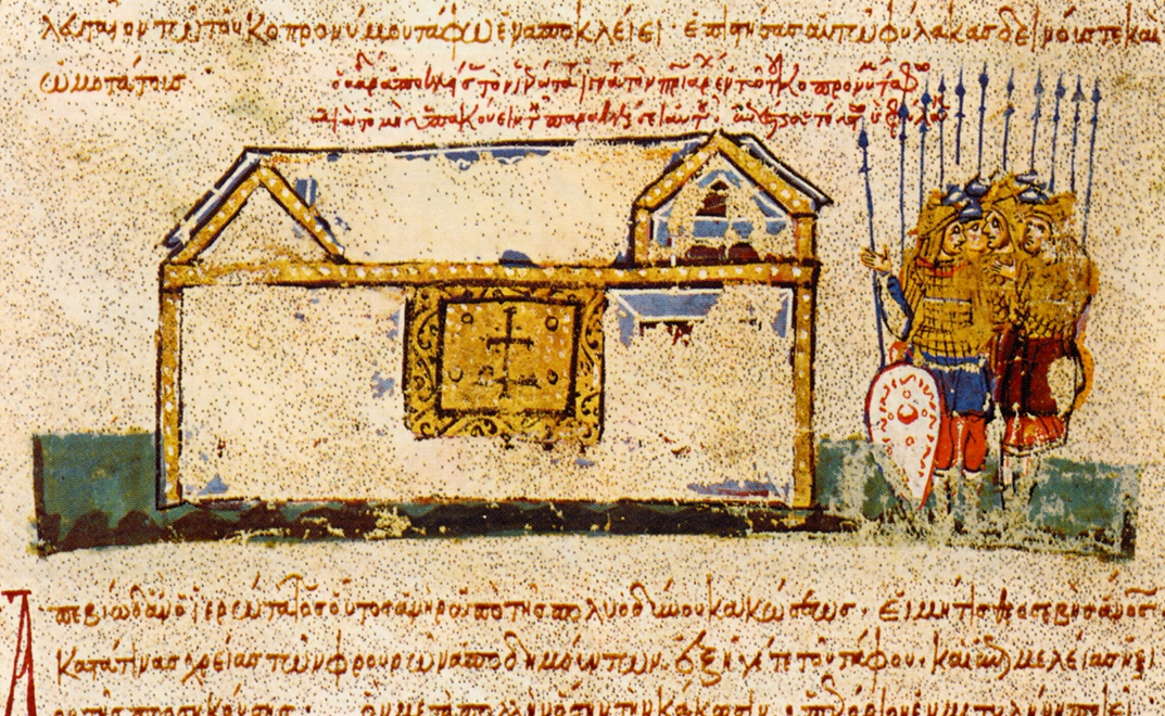 Skyllitzes Matritensis, fol. 76va, detail. Miniature: Confinement of the Patriarch Ignatios in the tomb of Constantine V Kopronymos. Text from the Chronicle of John Skylitzes: "... Promoted to the patriarchal throne, he debarred Bardas from church for having put his wife away without cause and cohabiting with his mistress in contempt of canon law. Though Bardas begged and pleaded, he was unable to obtain absolution; so losing all hope of doing so, he went onto the offensive. He threw Ignatios out of the church, subjected him to a host of unbearable sufferings and finally locked him up in the tomb of [Constantine V] Kopronymos with the crudest of ferocious guards to watch over him. ..." (Translated by John Wortley, in: John Skylitzes: A Synopsis of Byzantine History, 811-1057: Translation and Notes, p. 106-107) References: Ioannis Scylitzae Synopsis Historiarum. Editio Princeps. Rec. Ioannes Thurn, p. 106, in: Corpus Fontium Historiae Byzantinae 5 Series Berolinensis, 1973 Tsamakda V.: The illustrated chronicle of Ioannes Skylitzes in Madrid, p. 119 Grabar A., Manoussacas M.: L'illustration du manuscript de Skylitzes de Madrid, p. 55